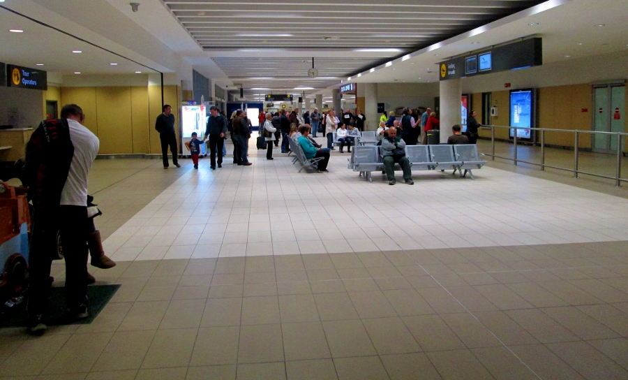 Paphos International Airport by night Republic of Cyprus Kypros